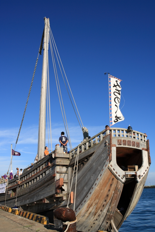 Michinoku Maru at the Port of Akita.